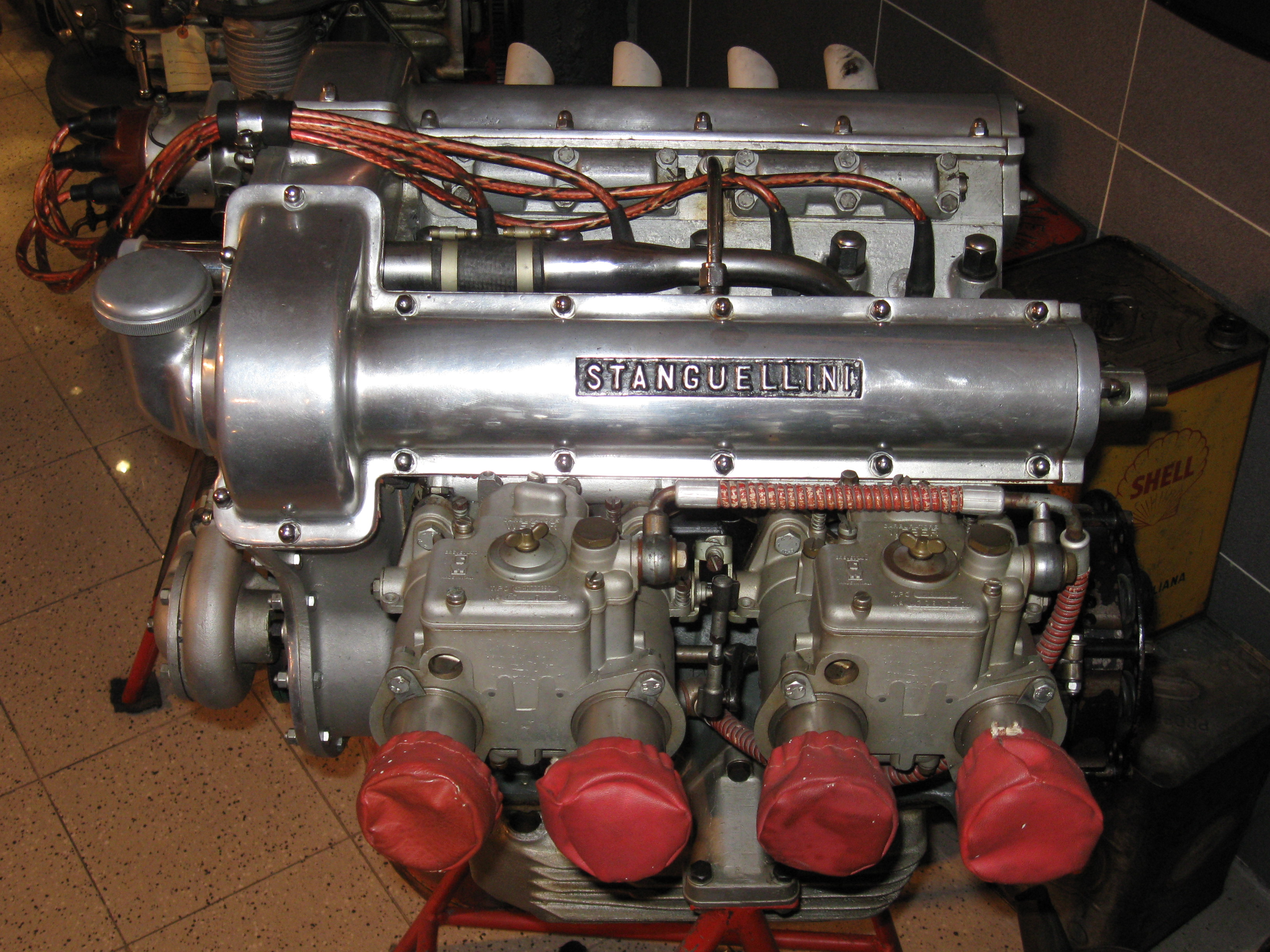 A Stanguellini racing engine exhibited in the Stanguellini Museum